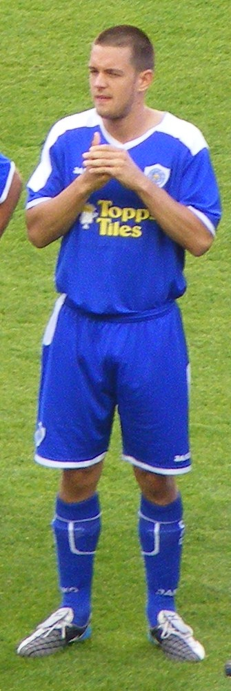 Matty Fryatt. Image cropped from original at Flickr.